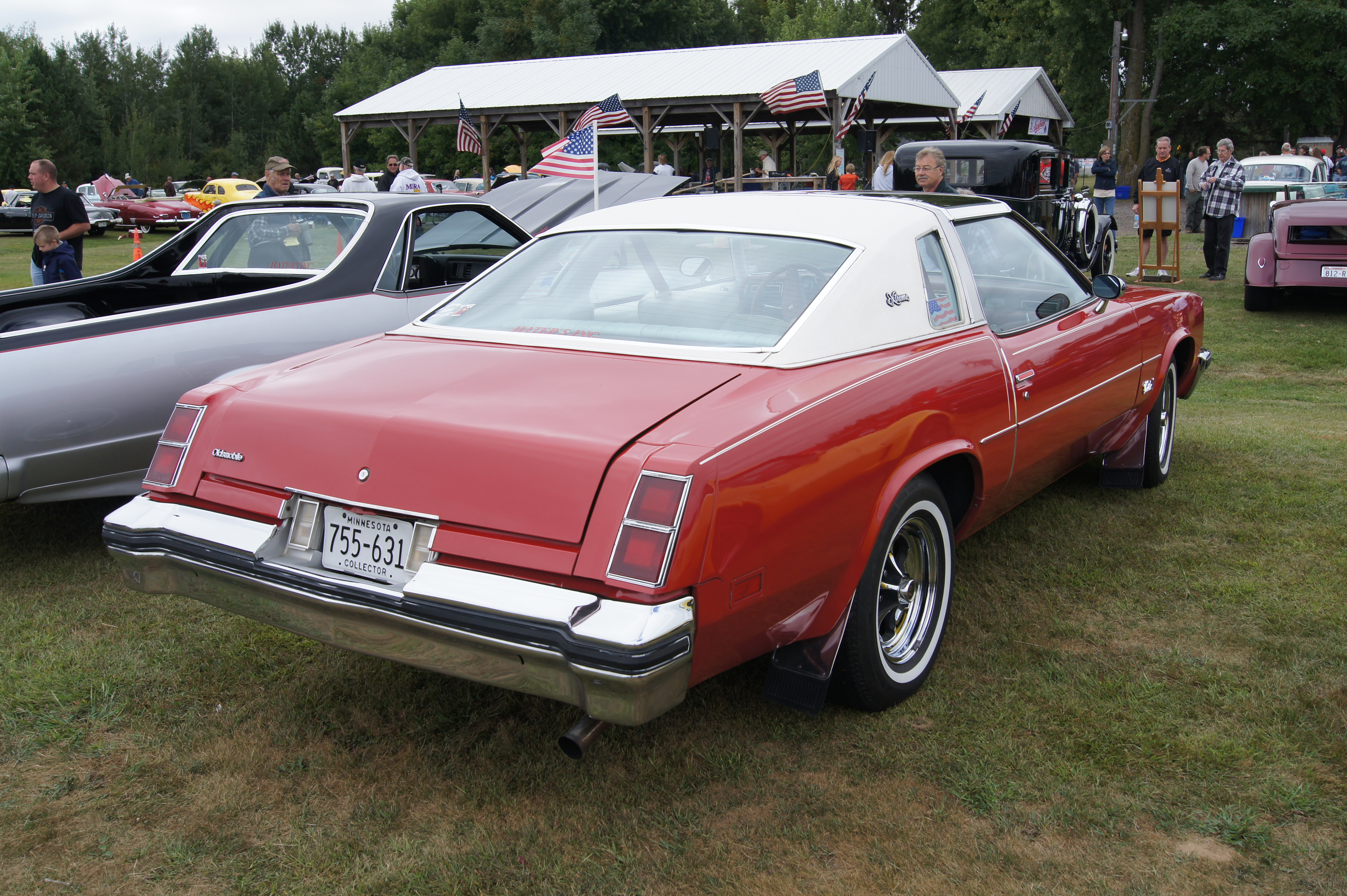 North Star Chapter Studebaker Drivers Club 13th Annual Labor Day Car Show September 2, 2013 Blacksmith Lounge Hugo, MN More Car Pictures